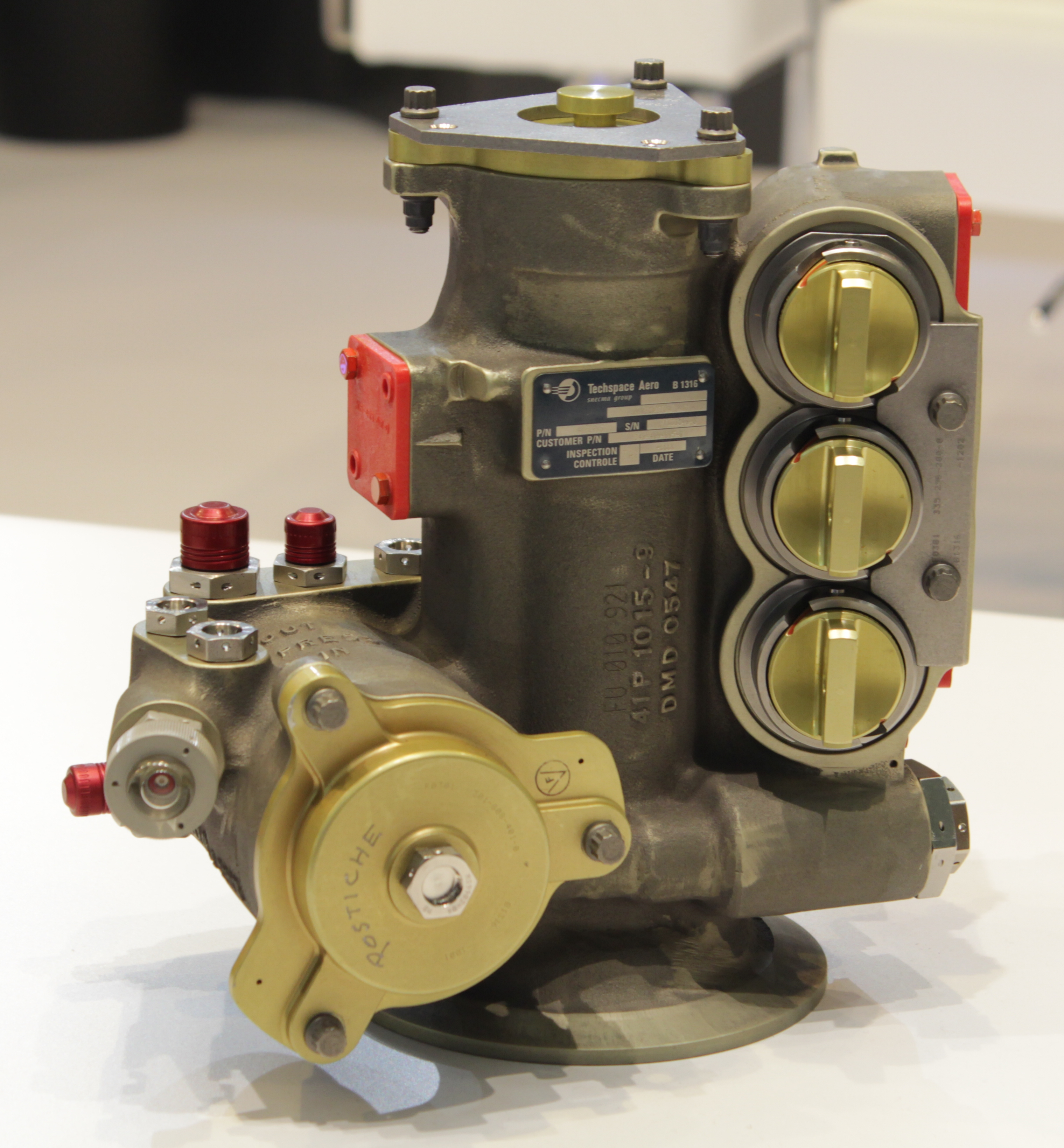 Photography taken at the Paris Air Show 2013